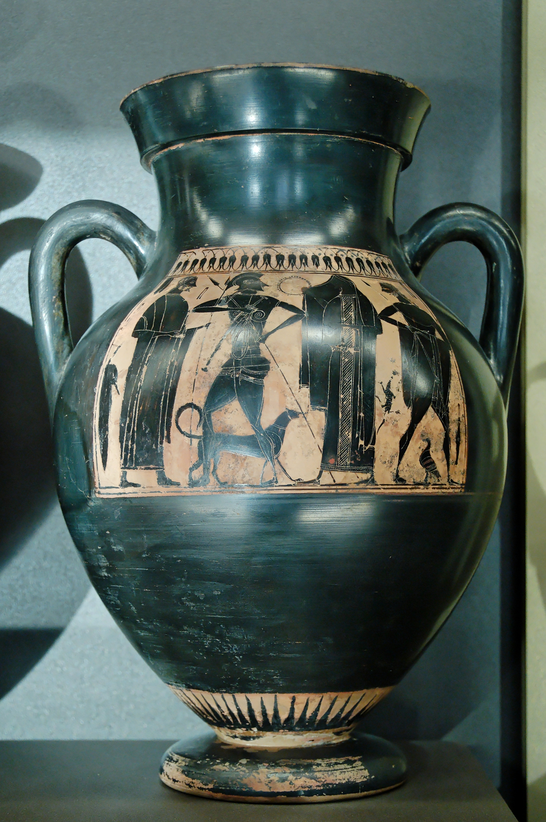 Warrior's departure. Side A from an black-figure Attic amphora, ca. 540–530 BC.